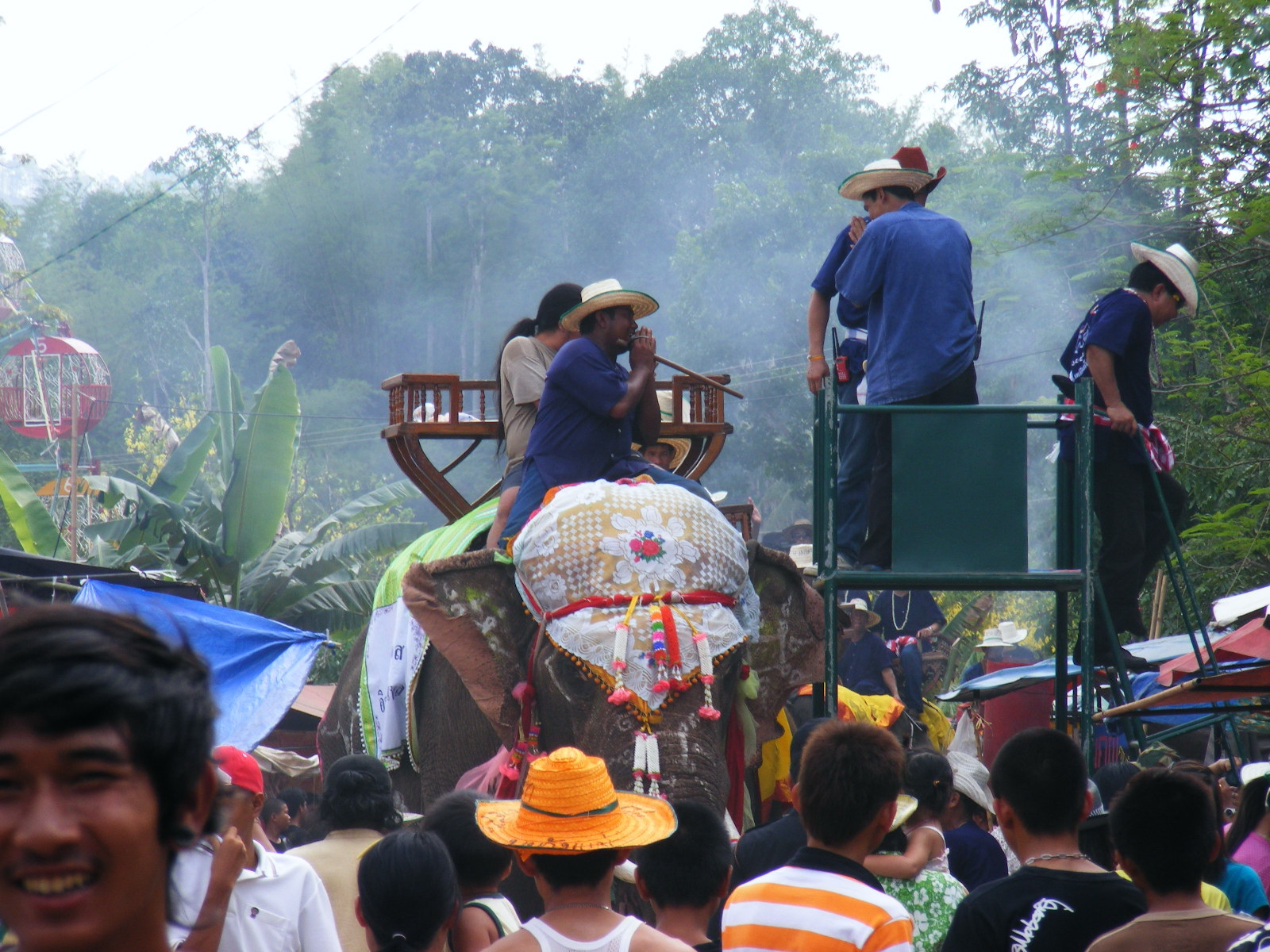 elephant parades in Ban Tuk (Si Satchanalai) Location: Si Satchanalai, Sukothai Province, Thailand.